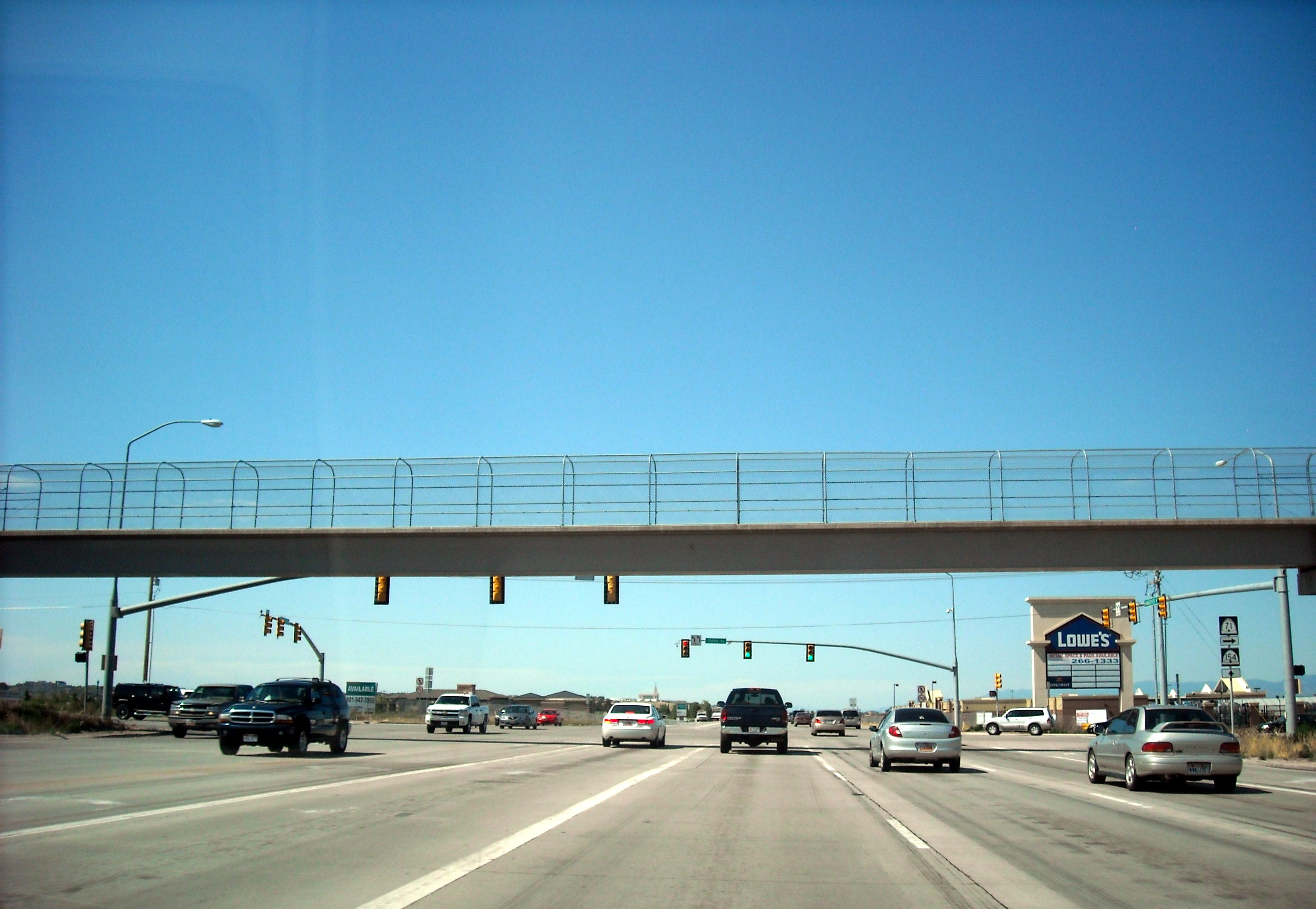 Bangerter Hwy (SR-154) northbound at 12600 South (SR-71) in Riverton. The Oquirrh Mountain Utah Temple is visible in the background, at center